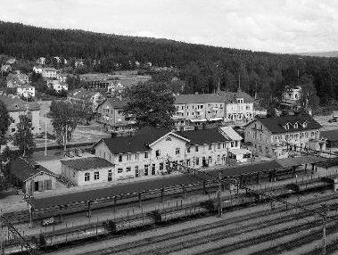 ÅNGE SJ railway station and railway yard seen from above